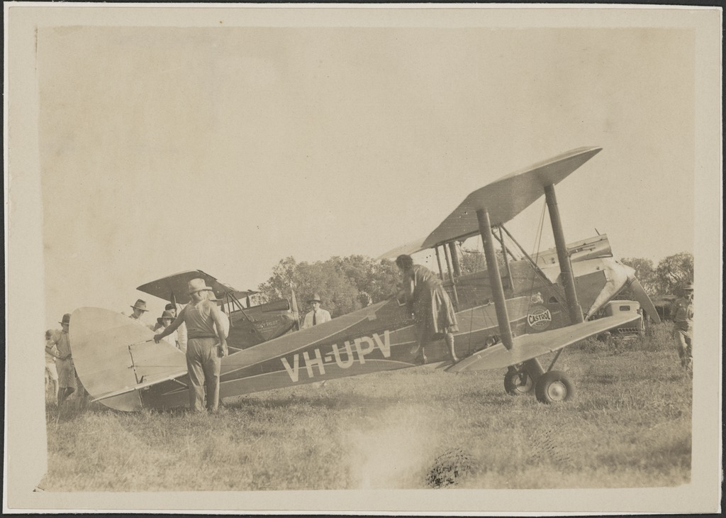 Part of collection: E.A. Crome collection of photographs on aviation. Title devised by cataloguer based on caption on verso and reference sources. Also available in an electronic version via the Internet at: .au/nla.pic-vn3723110 Persistent URL .au/nla.pic-vn3723110